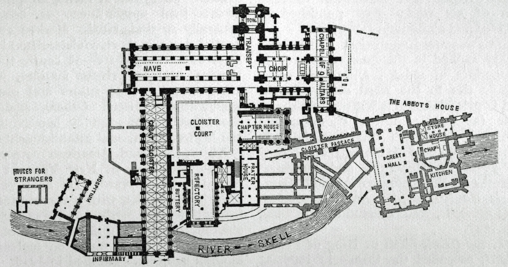 A plan of Fountains Abbey taken from an early 20th century encyclopedia.